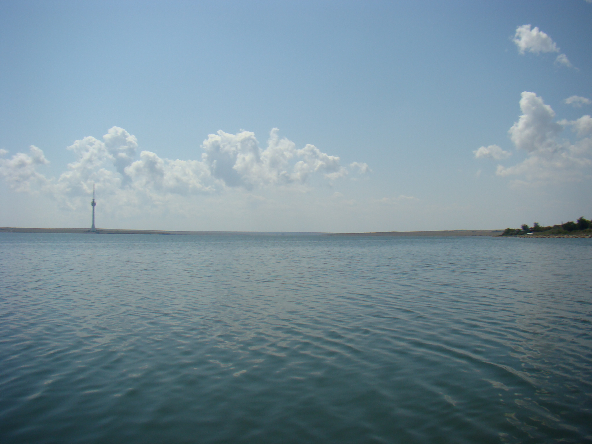 Techirghiol Lake, Constanta county, Romania